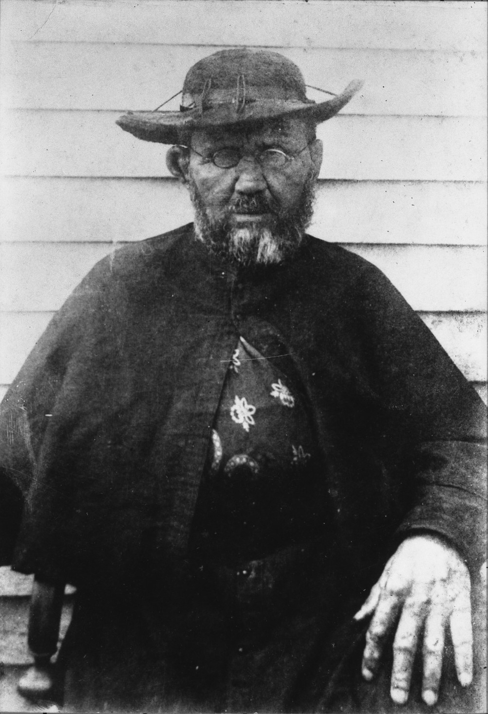 Father Damien, taken in 1889, either late February or March, weeks before his death by William Brigham at a side wall of the St. Philomena Catholic Church on the settlement. Only two photographs exist from Brigham's visit, this and the group photo of Damien with the 64 boys of the settlement